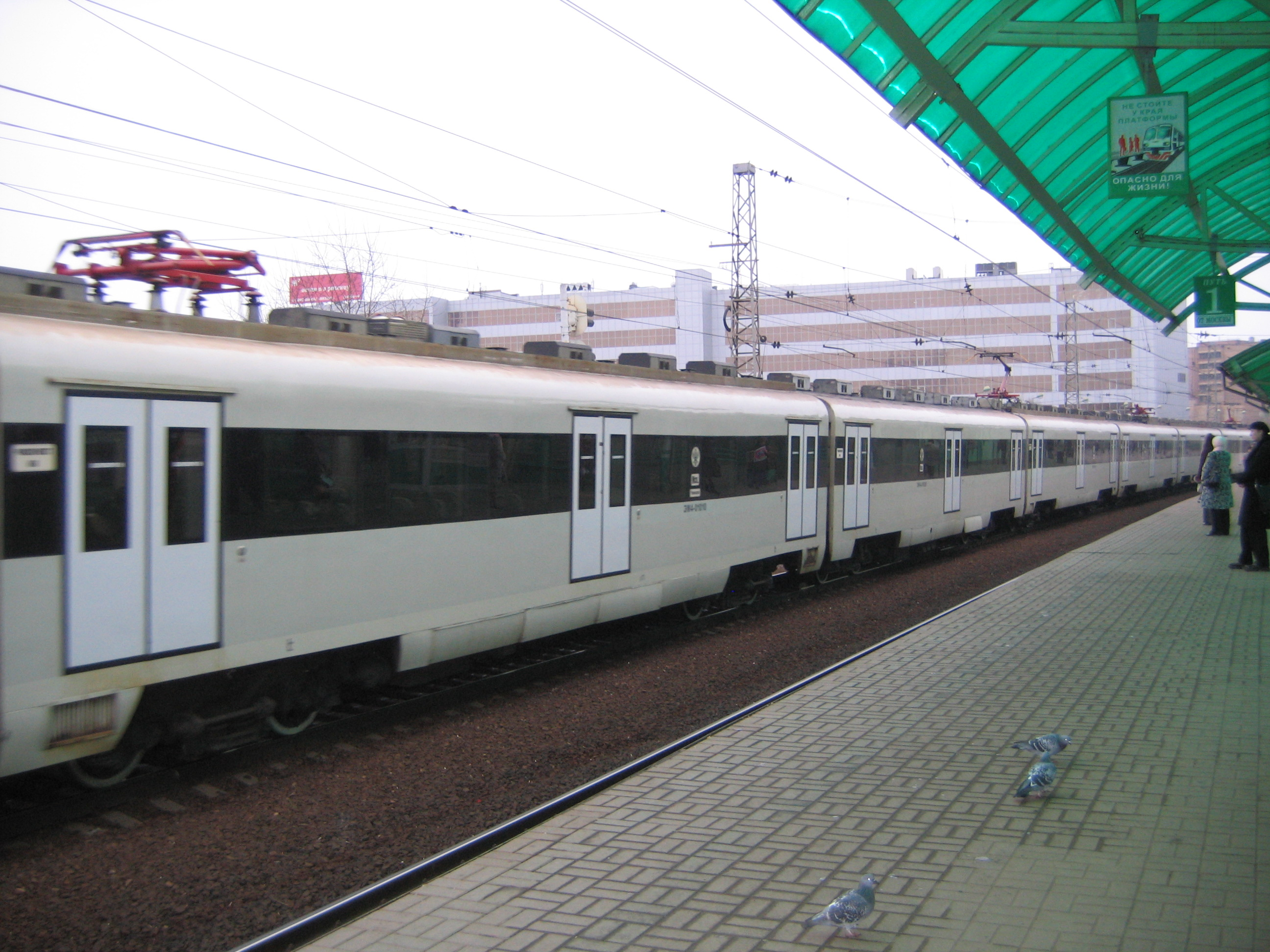 EM4 (ЭМ4) electrical multiple unit at Electrozavodskaya railway station, Moscow, Russia